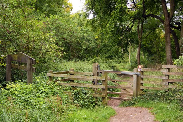 A gate on the Ridgeway on Whiteleaf Hill